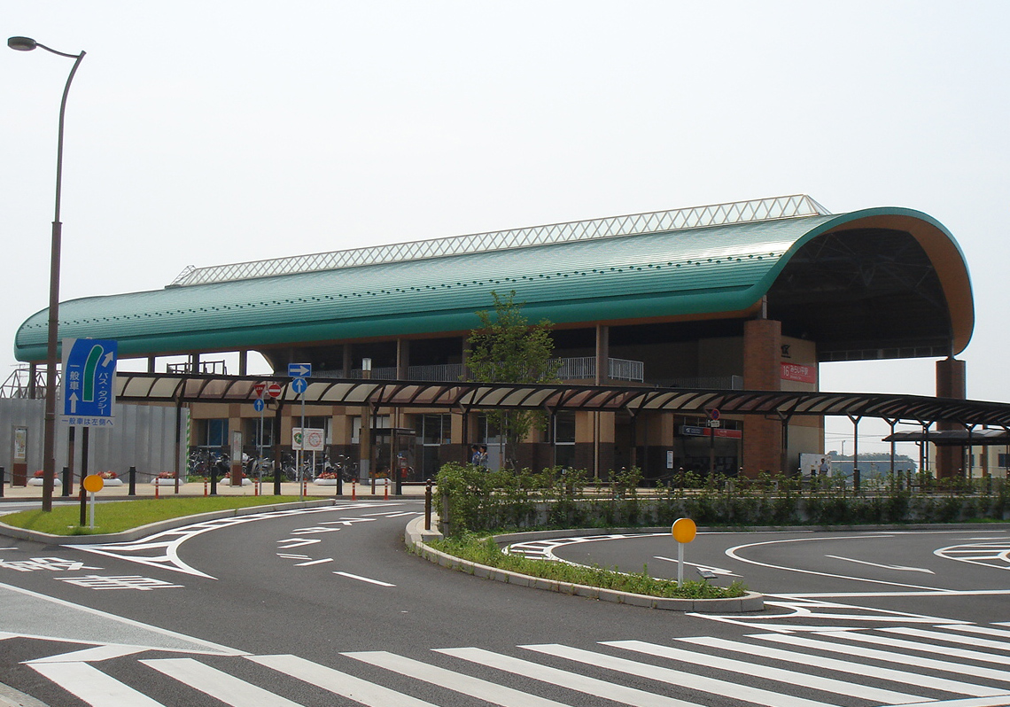 Miraidaira Station on the Tsukuba Express Line in Tsukubamirai, Ibaraki, Japan